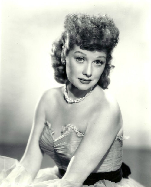 Publicity photo of Lucille Ball for Lux Radio Theatre. This was shortly before she would begin her most famous role as Lucy Ricardo on the television program I Love Lucy.